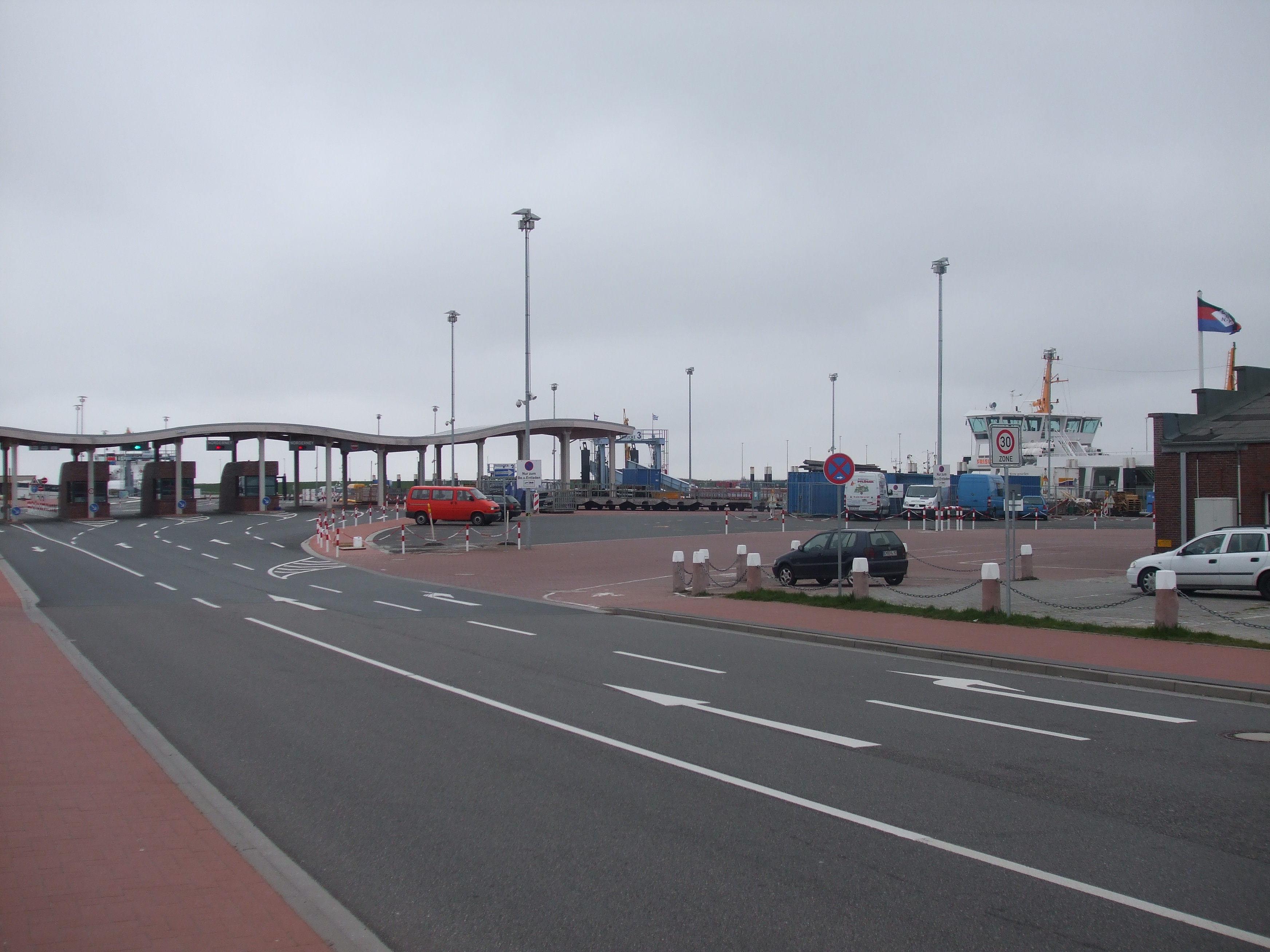 Norddeich directly at the ferry